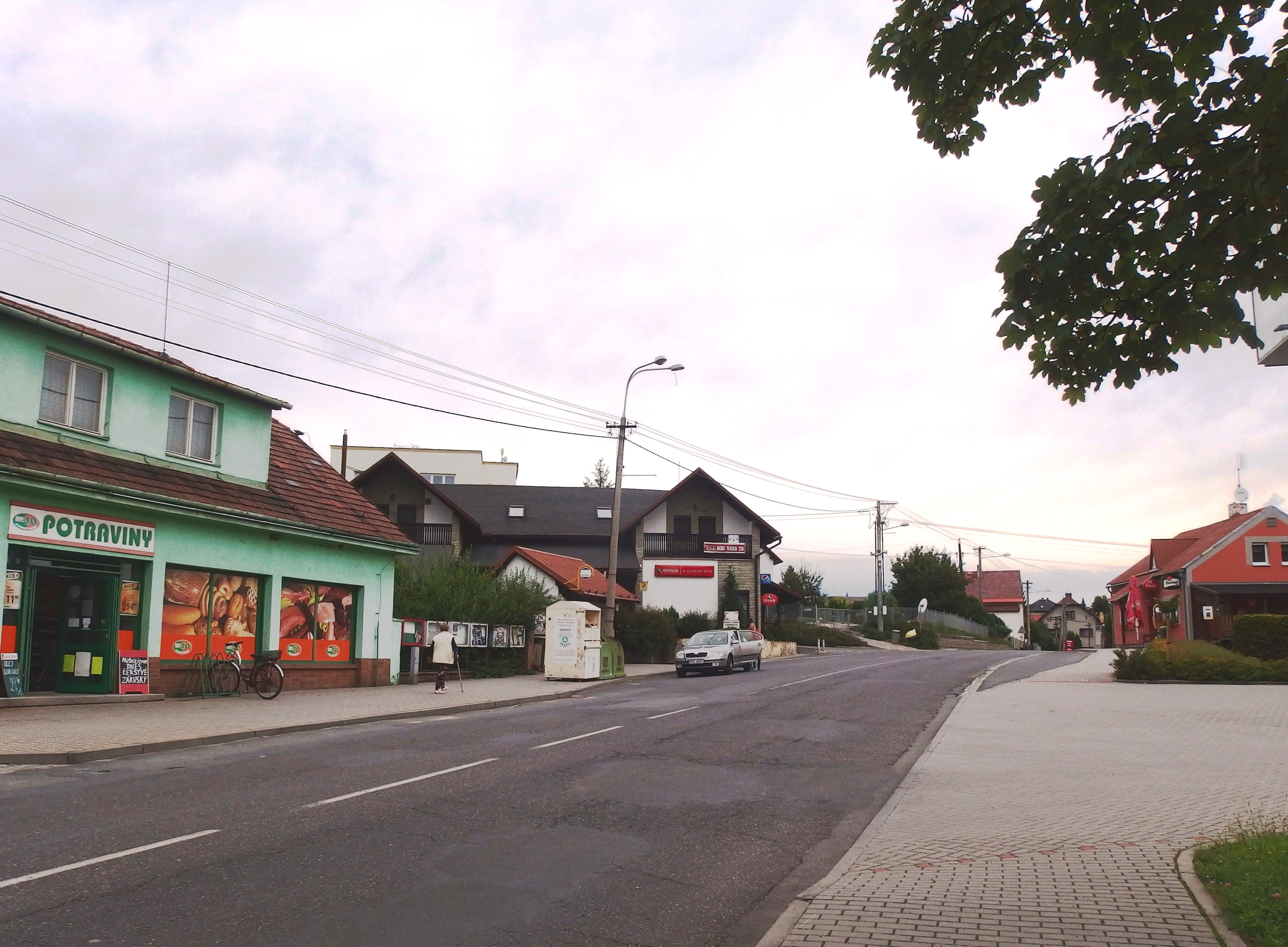 Markvartovice, Opava District, Czech Republic.